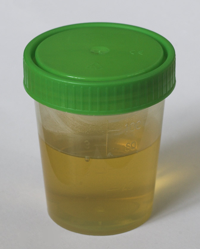 human urine